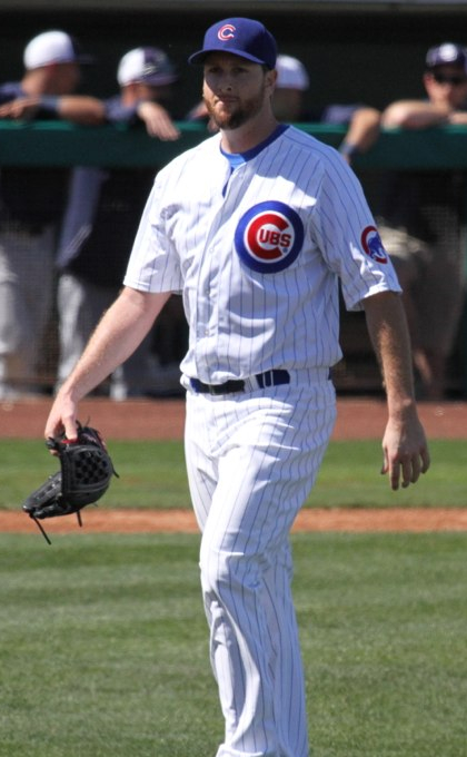 Scott Feldman